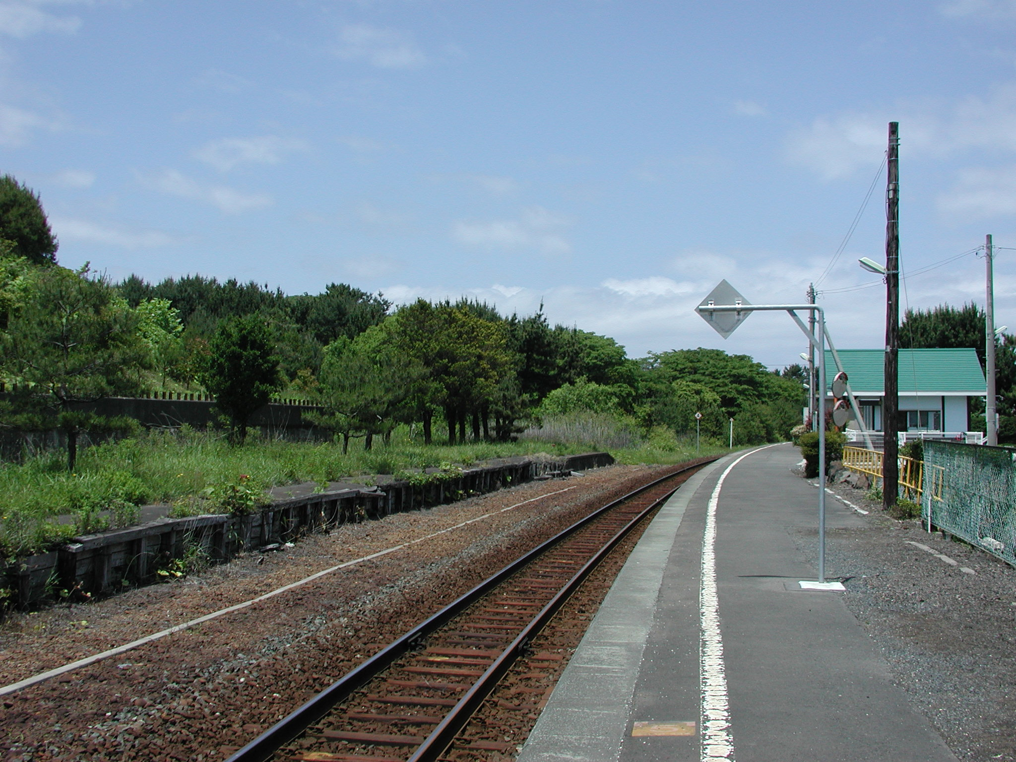 Tanesashi-Kaigan Station in Home